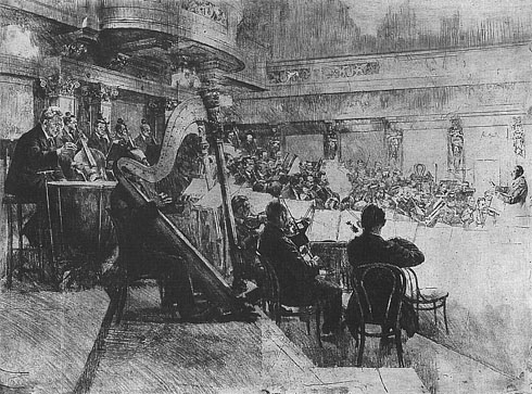 Vienna Philharmonic Orchestra at the rehearsal (Felix von Weingartner conducting)